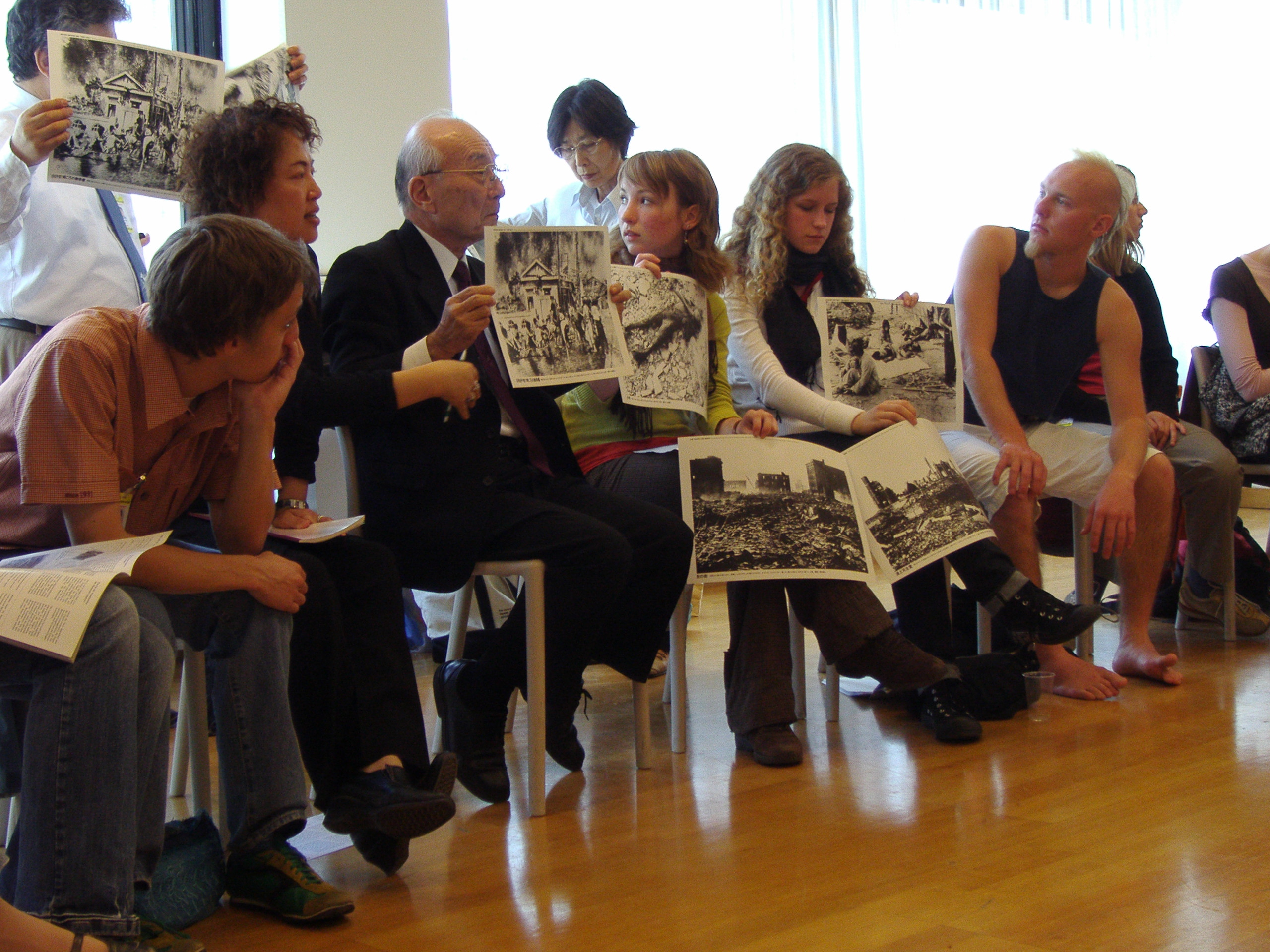 A hibakusha, a survivor of the atomic bombing of Nagasaki, tells young people about his experience and shows pictures. United Nations building in Vienna, duringt the NPT PrepCom 2007.